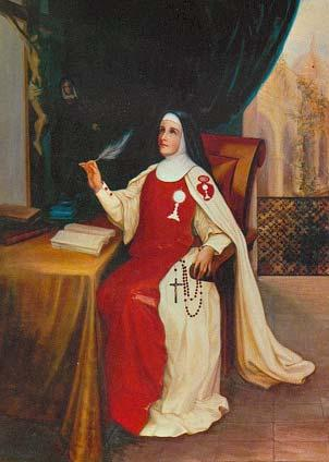 Portrait of the Blessed Maria Maddalena dell'Incarnazione, foundress of the Perpetual Adoratrices of the Most Saint Sacrament.